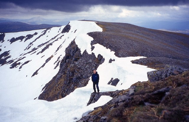 Standing at the edge of Ben Alder's snow corniced Garbh Choire